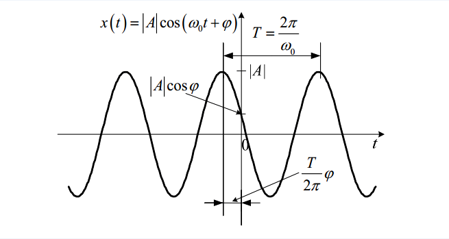 Figura 5. Sinusoida komplekse